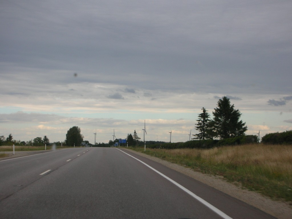 Viru Nigula Wind Generators from Tallinn–Narva road.